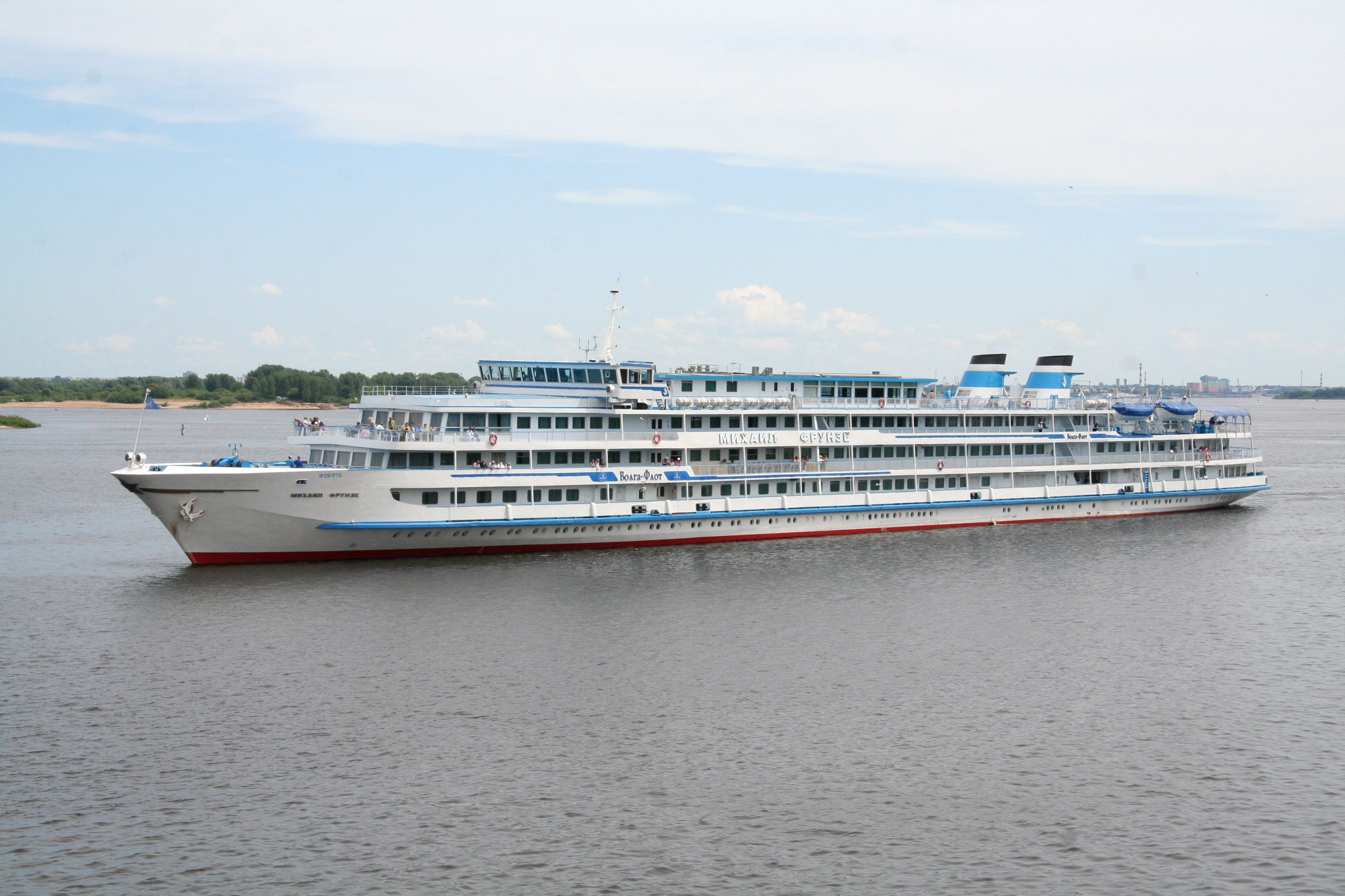 The passenger MS Mikhail Frunze of Project 92-016 class on the roadsteps nearby Nizhni Novgorod. The ship is named in honour of Soviet military and state leader Mikhail Frunze.